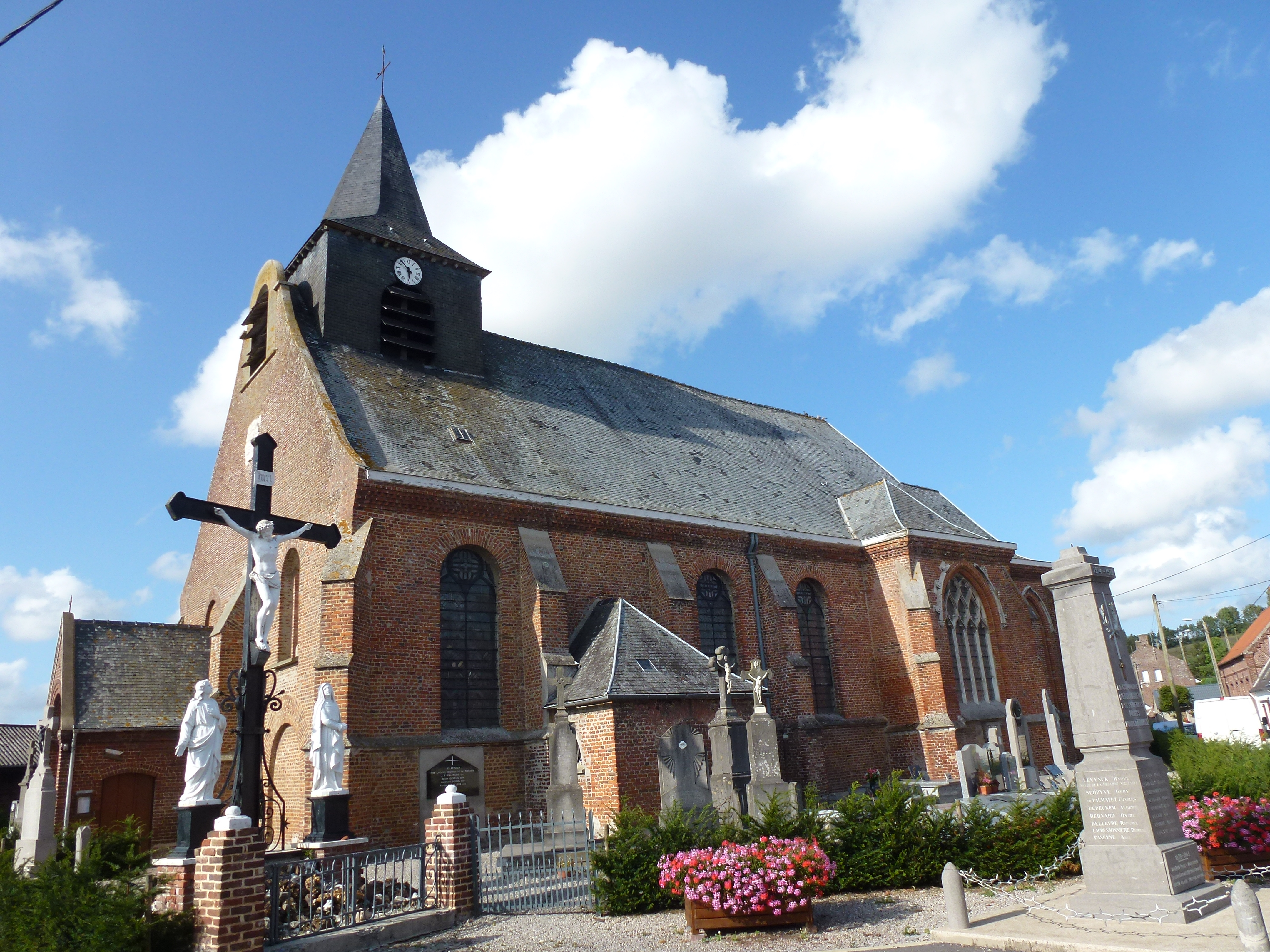 Ebblinghem (Nord, Fr) église